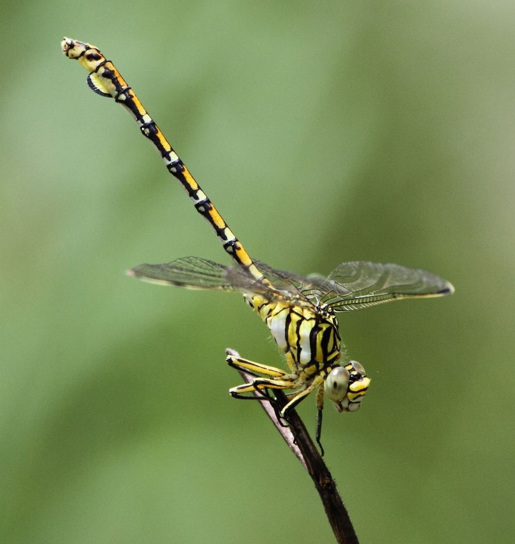 Common Thorntail Ceratogomphus pictus; male. Cumberland Nature Reserve, KwaZulu-Natal, South Africa. OdonataMAP record no. 11838